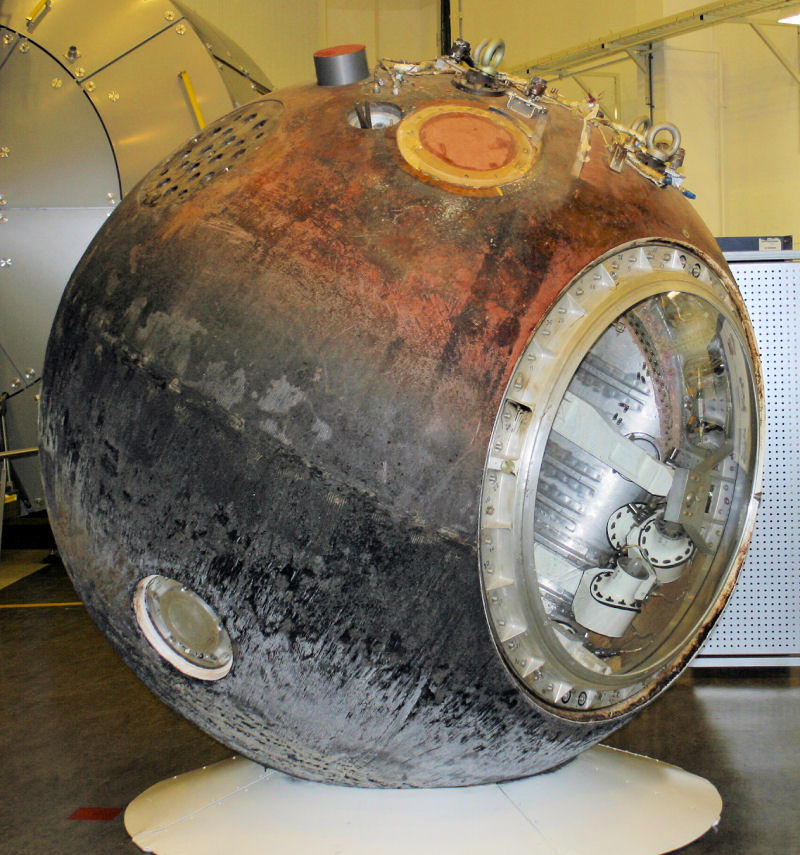 Foton 12 re-entry capsule on display at the High Bay of the Erasmus Centre at the Space Research and Technology Centre in Noordwijk, Netherlands.